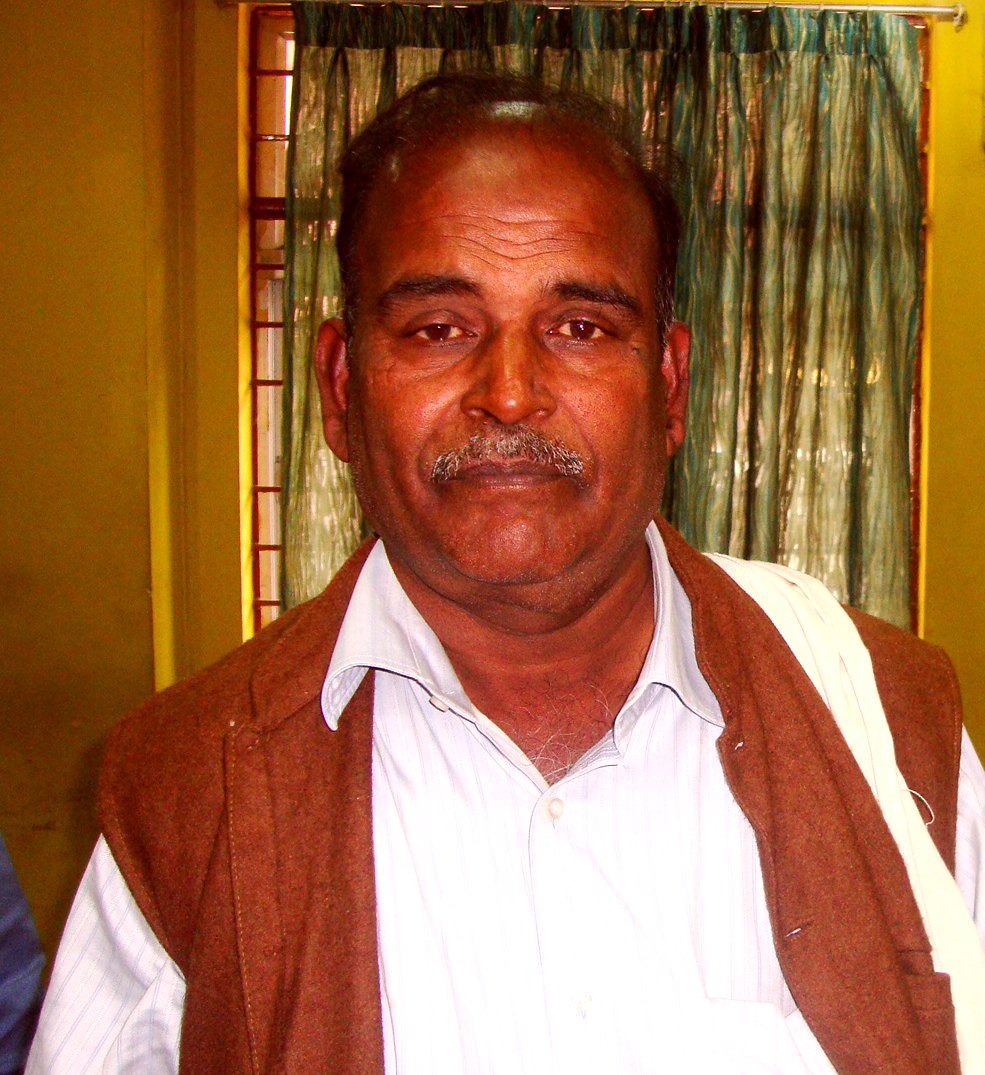 A renowned Oriya writer